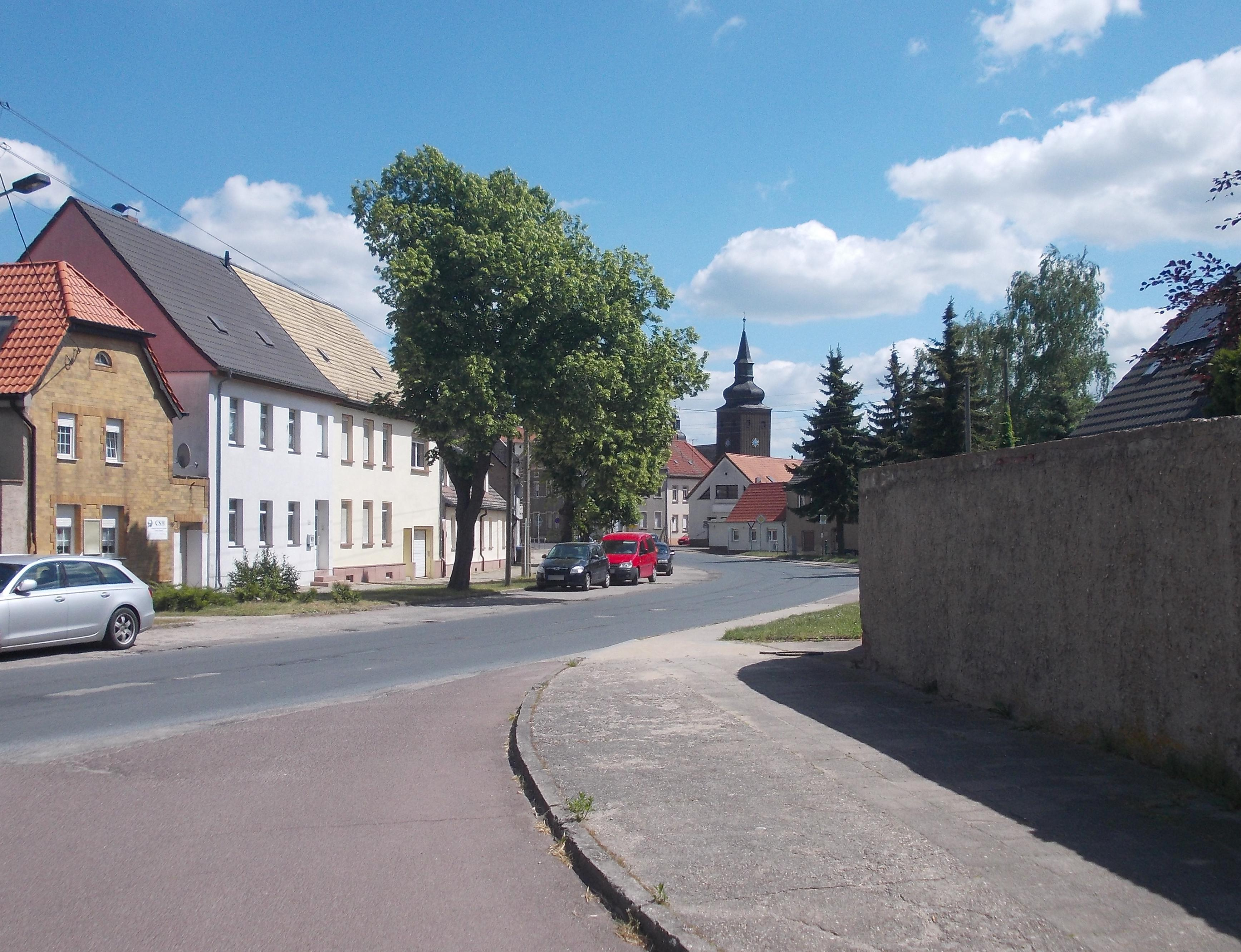 Bernburger Strasse in Gröbzig (Südliches Anhalt, Anhalt-Bitterfeld district, Saxony-Anhalt)